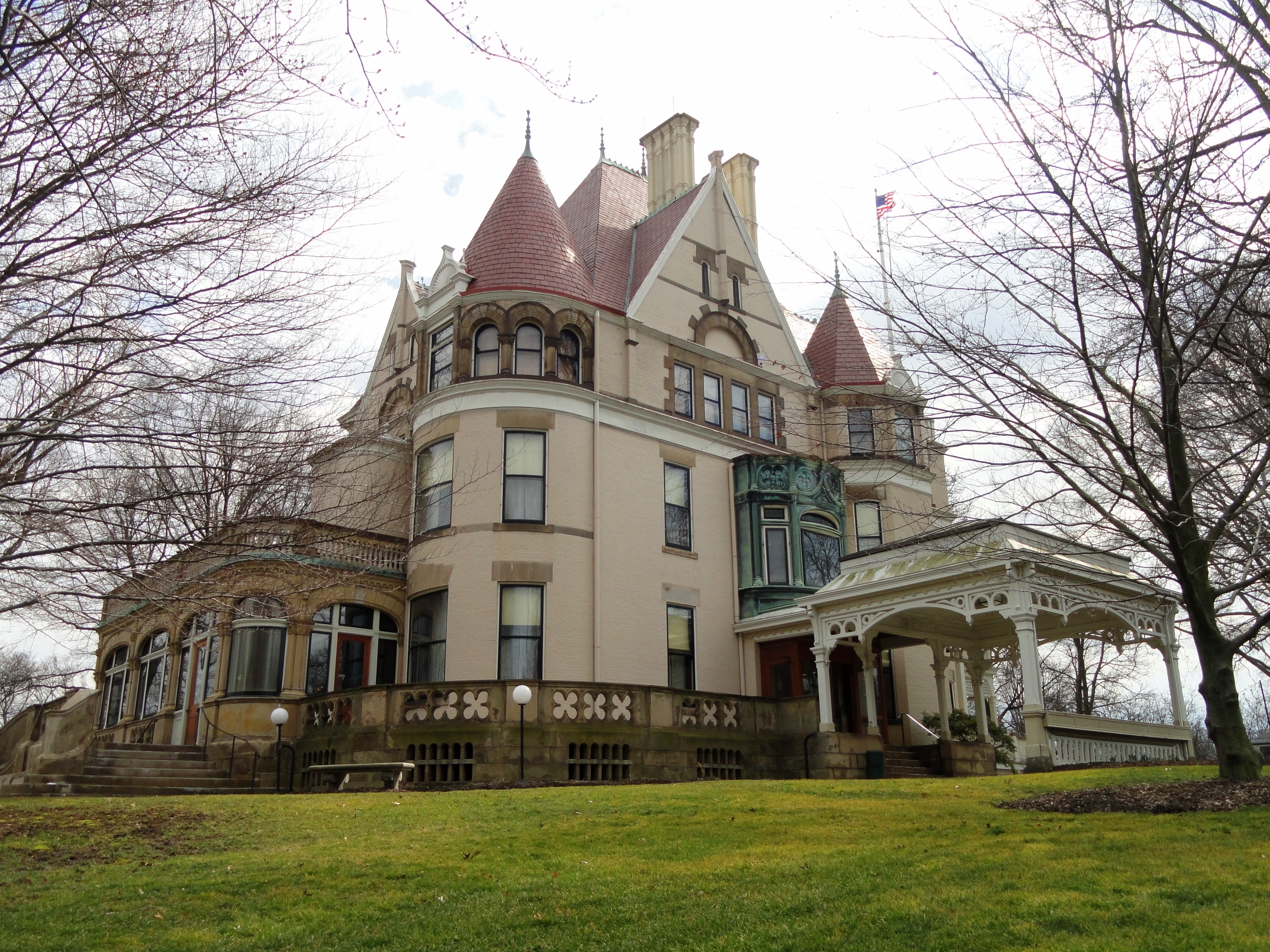 Clayton (home of Henry Clay Frick), Frick Art & Historical Center, 7227 Reynolds Street, Pittsburgh, Pennsylvania, USA.